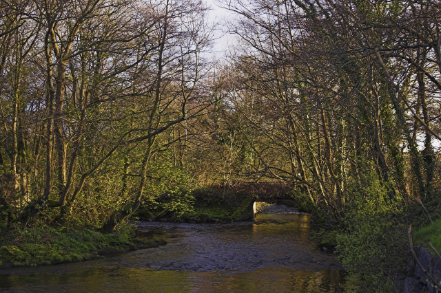 River Gwendraeth Fach, Kidwelly. River Gwendraeth Fach below the Tin Works Museum, Kidwelly